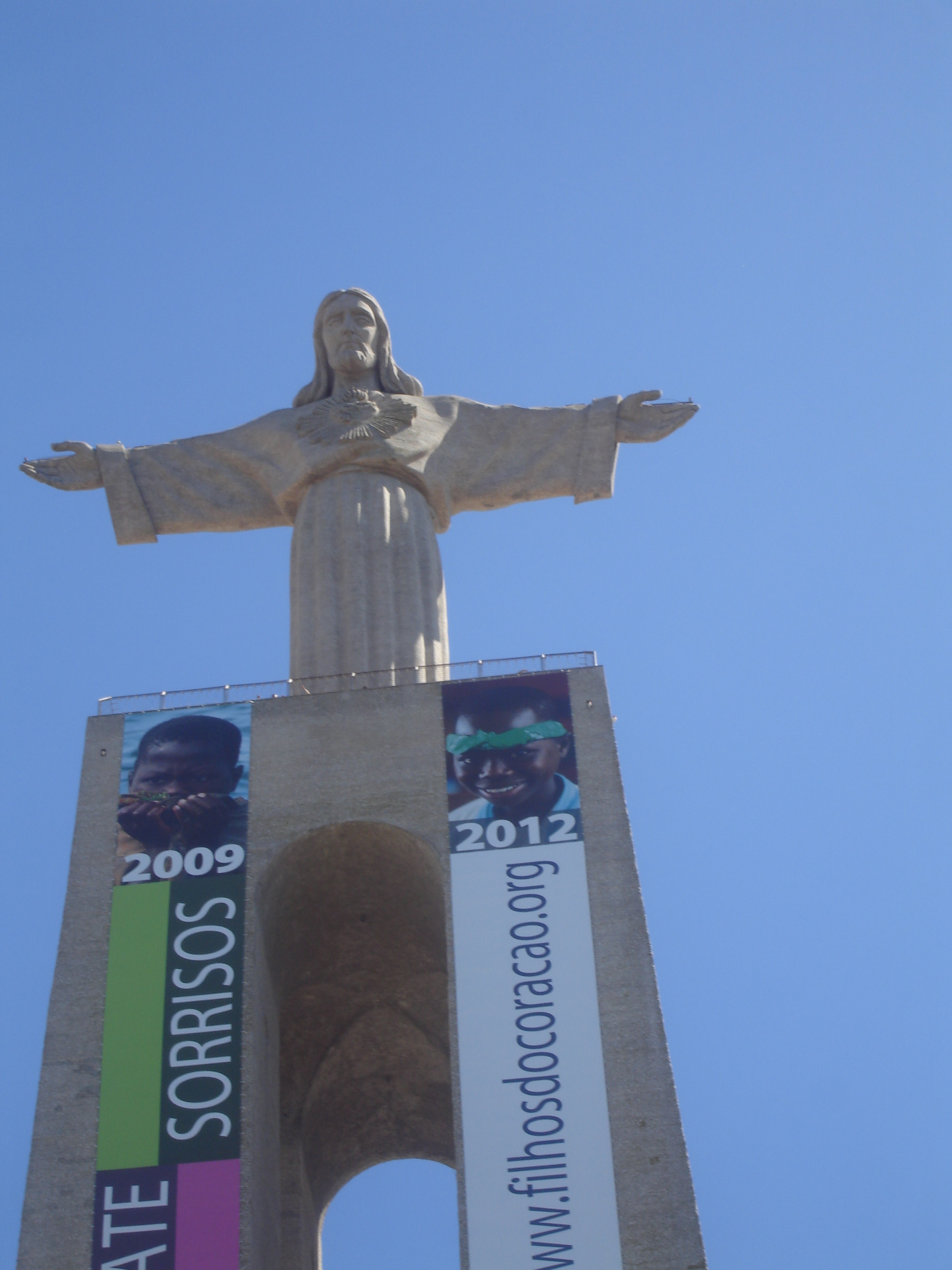 Christ the King (Almada),a Catholic monument and shrine dedicated to the Sacred Heart of Jesus Christ overlooking the city of Lisbon situated in Almada, in Portugal.